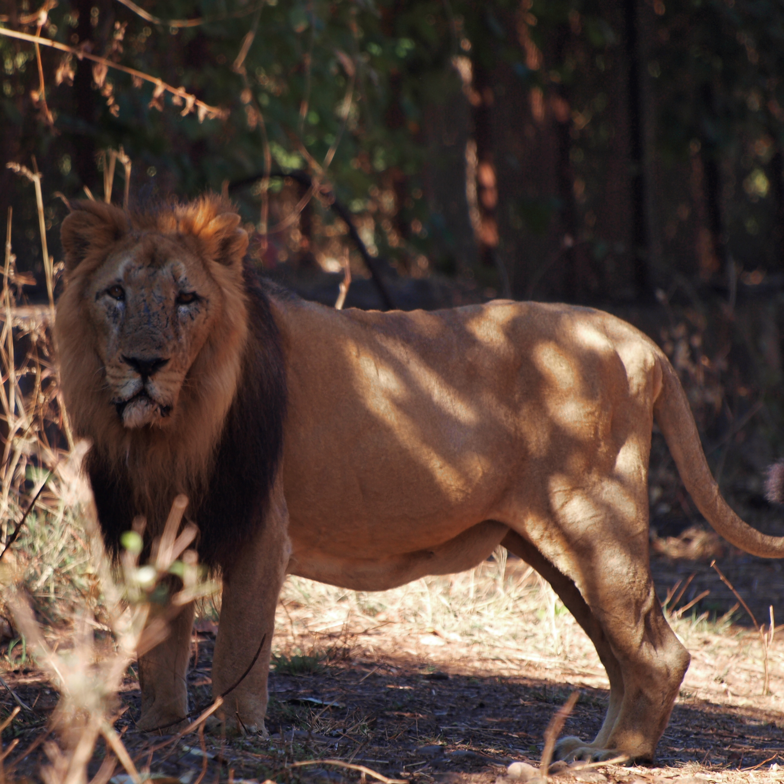 Panthera leo persica If he looks a bit beat up, it's because he was. Apparently two other males ganged up on him in the morning, to take over his lionesses. After that the sanctuary authorities separated the males and this guy was in the outer smaller fenced in area which is open to visitors, while the other two were in the main Gir sanctuary.